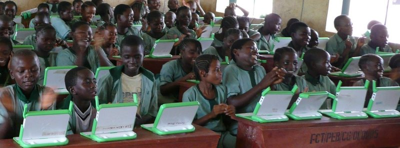 OLPC project in Nigeria.